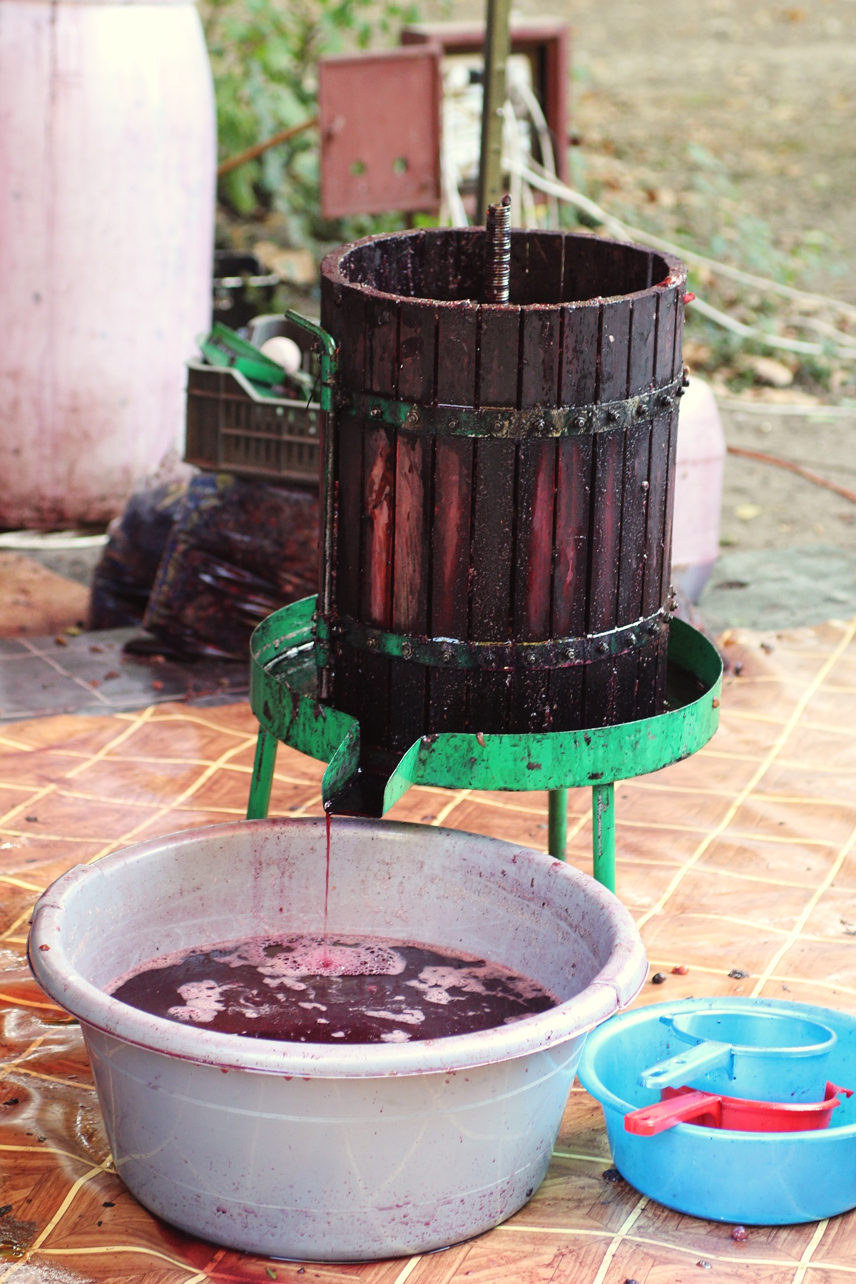 Must making with a wine pressRomână: Presarea strugurilor în teasc pentru a obtine must